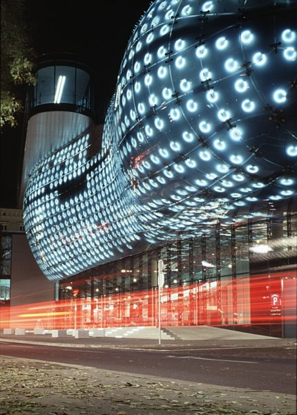 Kunsthaus Graz - media facade (night shot)